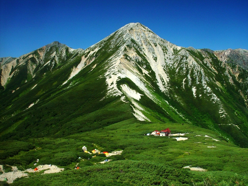 Mount Washiba and Mountain hut (Mitsumata Sanso) with camp site seen from Mount Mitsumatarenge, in Hida Mountains, Japan.